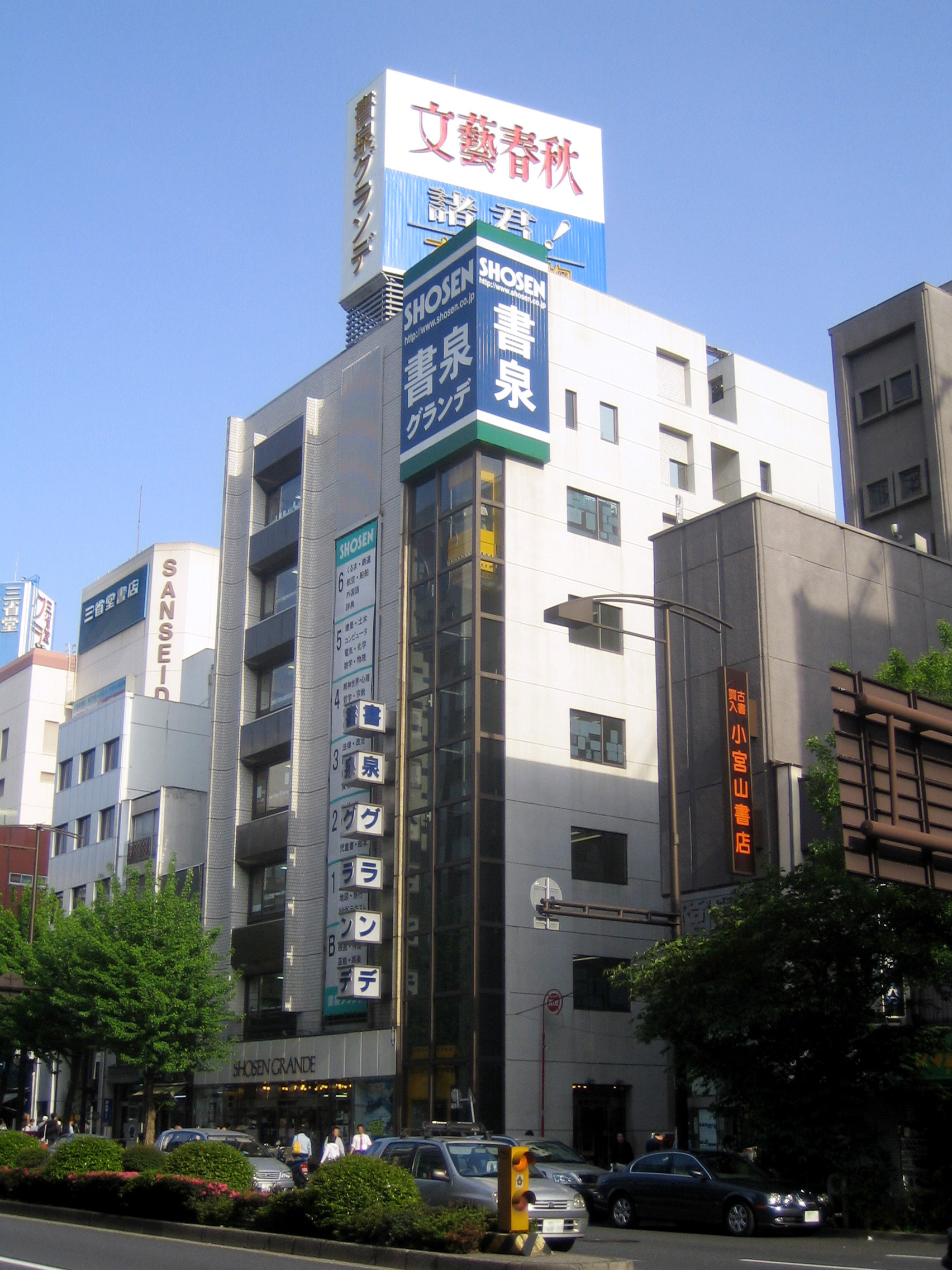 bookstore "Shosen Grande", at Kanda-Jinbocho (Kanda-Jinbōchō), Chiyoda, Tokyo, Japan